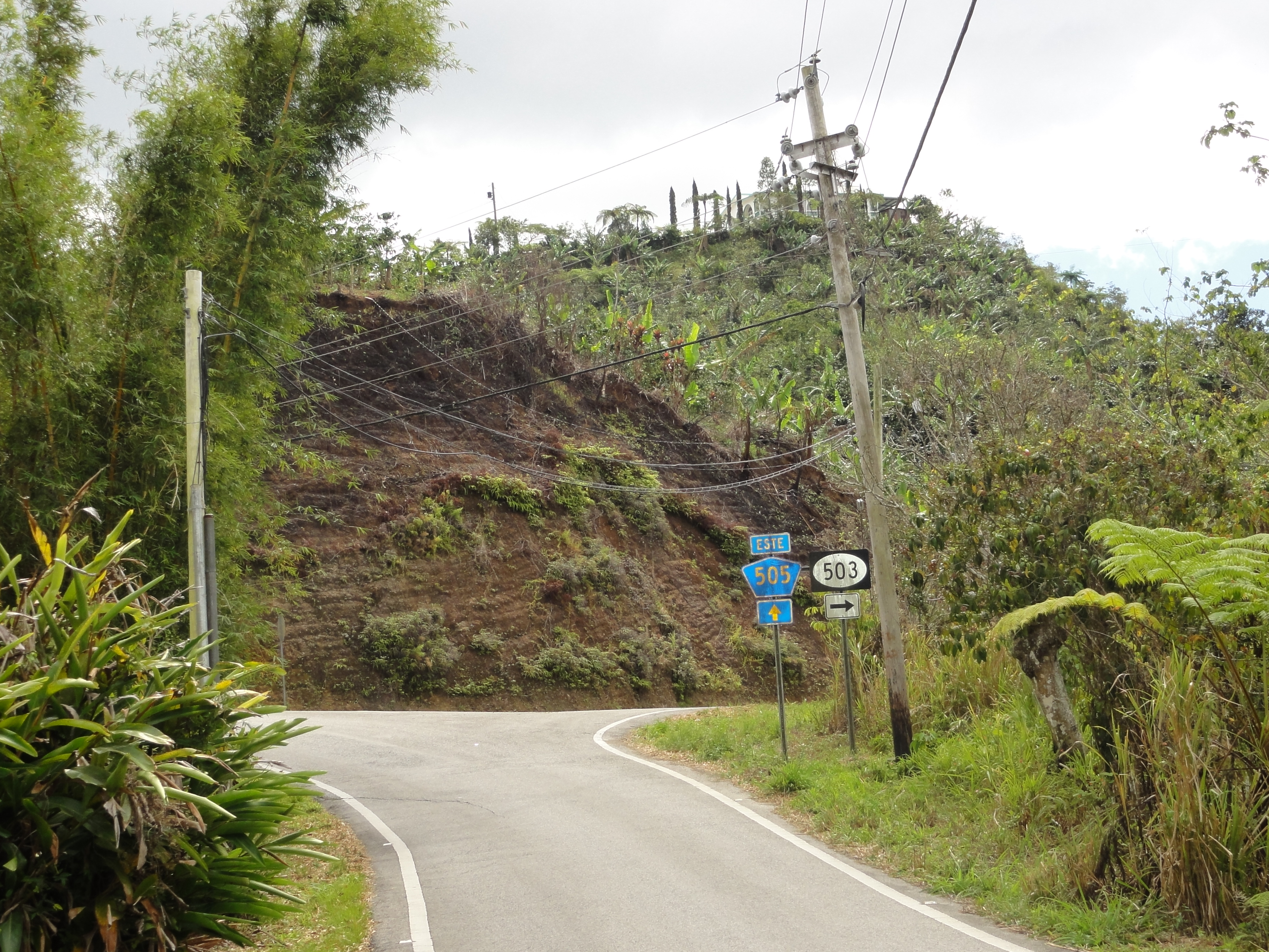 Escena cotidiana en la Carretera PR-503 Sur interseccion con la Carretera PR-505 en el Barrio San Patricio, Ponce, Puerto Rico